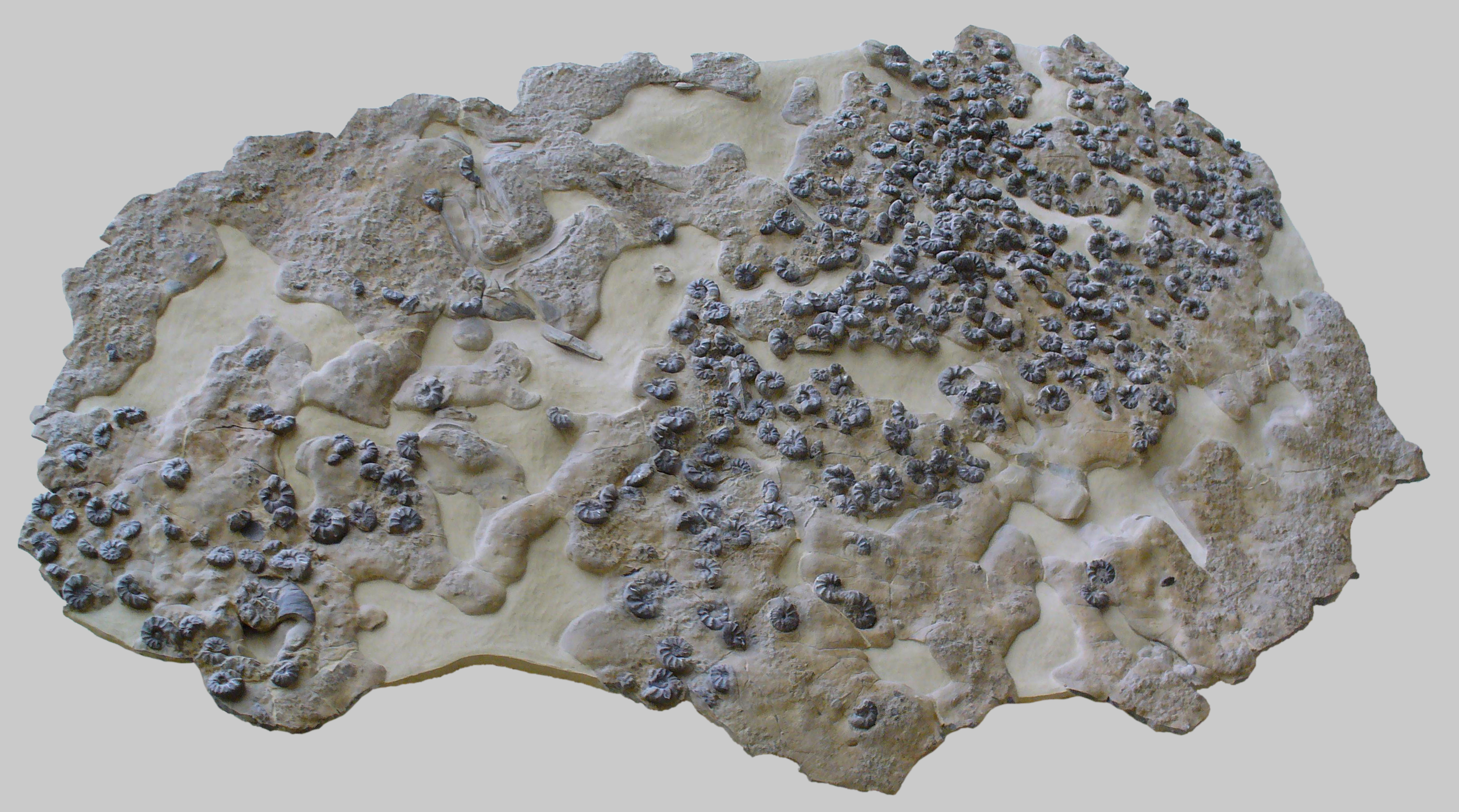 Ceratites-Plate, fossil sea bottom; Upper Muschelkalk, Eichelberg near Bruchsal, Germany; Besides Ceratites spec. the plate contains also Germanonautilus bidorsatus, Placunopsis spec., Coenothyris spec., and Rhizocorallium commune; Staatliches Museum für Naturkunde Karlsruhe, Germany.